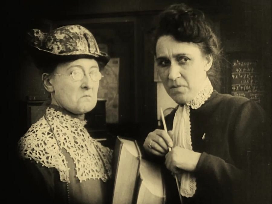 Nora Cecil (left) & Marcia Harris in The Poor Little Rich Girl - cropped screenshot